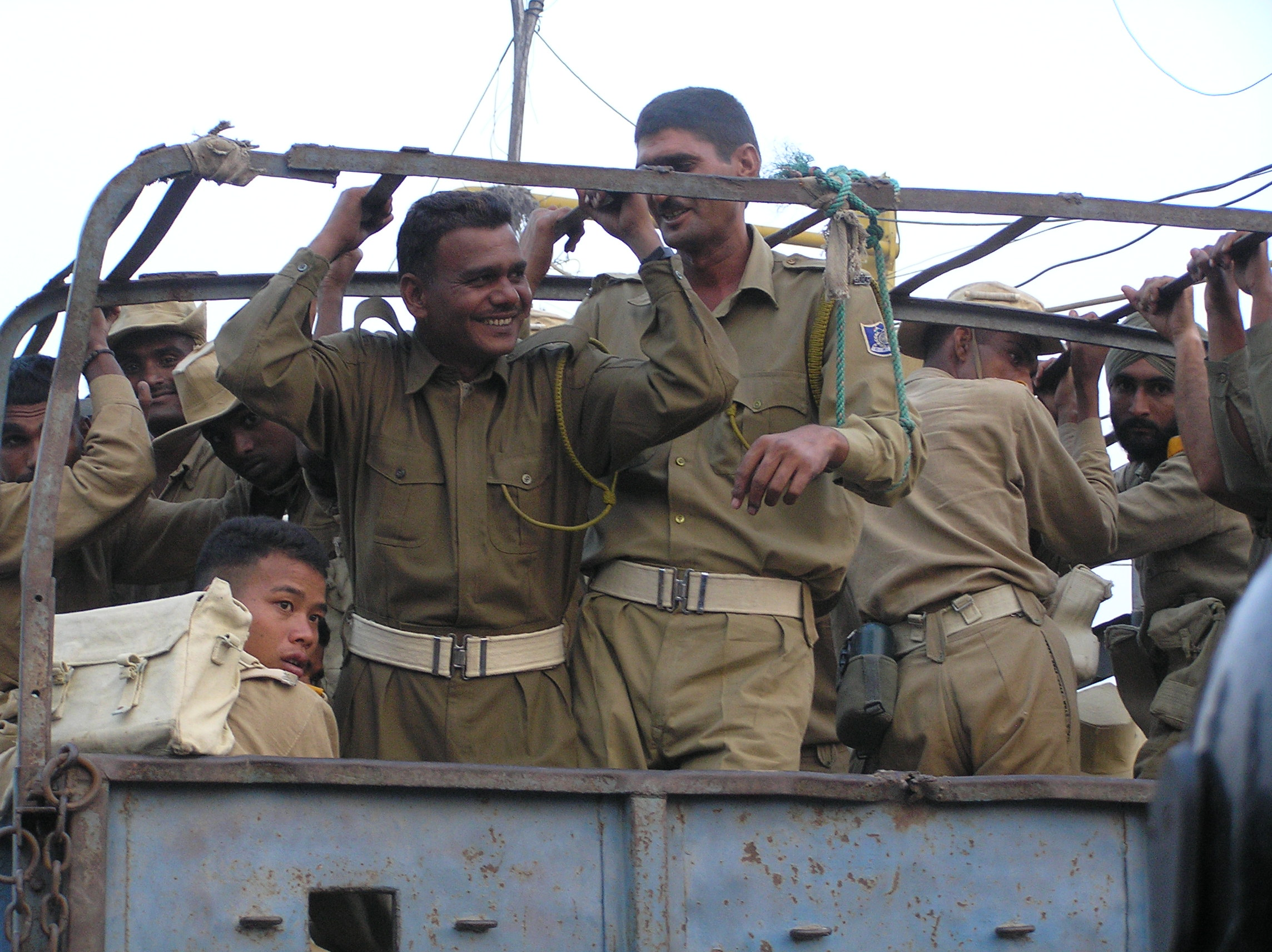 Indian soldiers in a back of truck going down a highway.